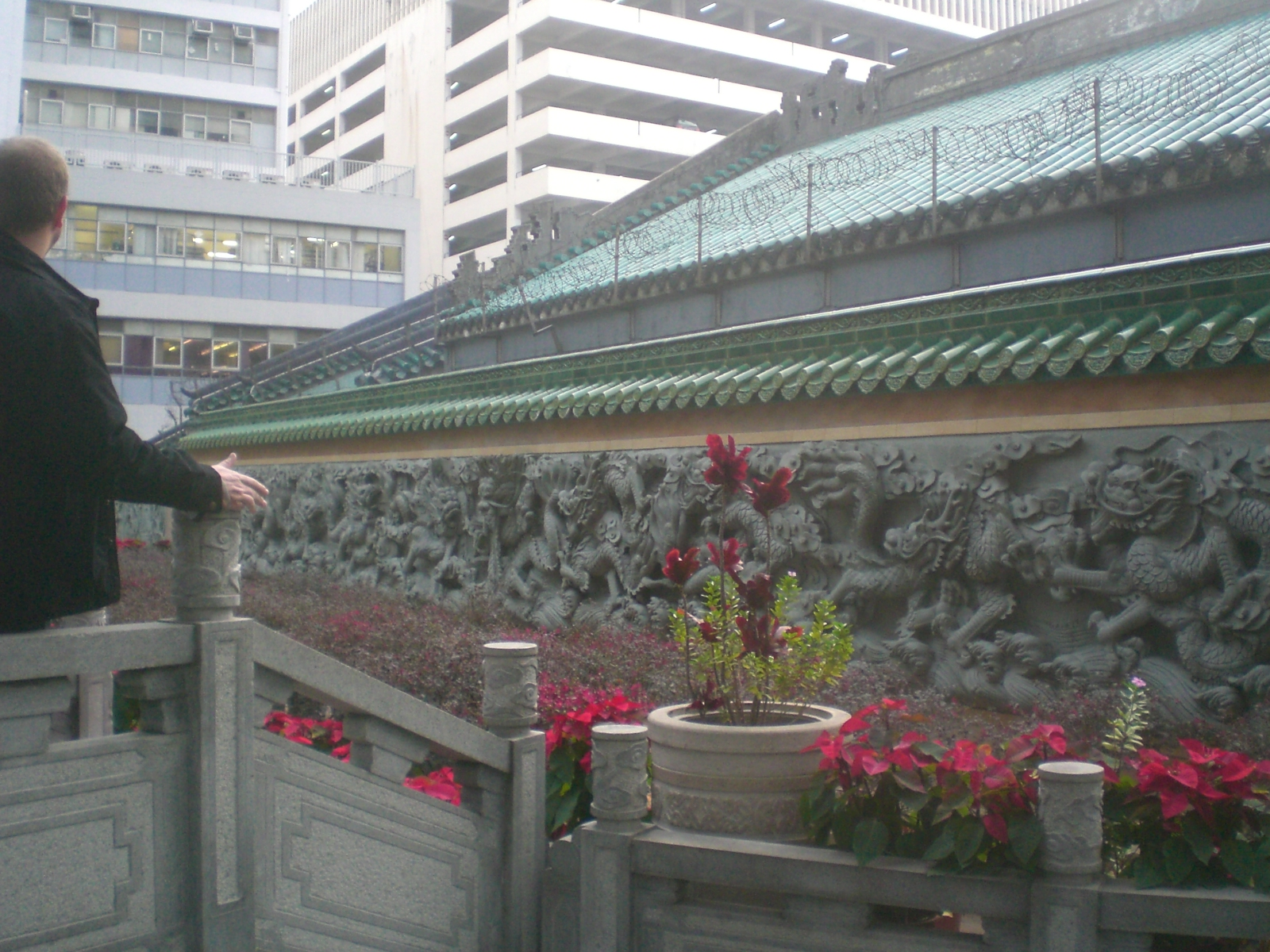 油麻地